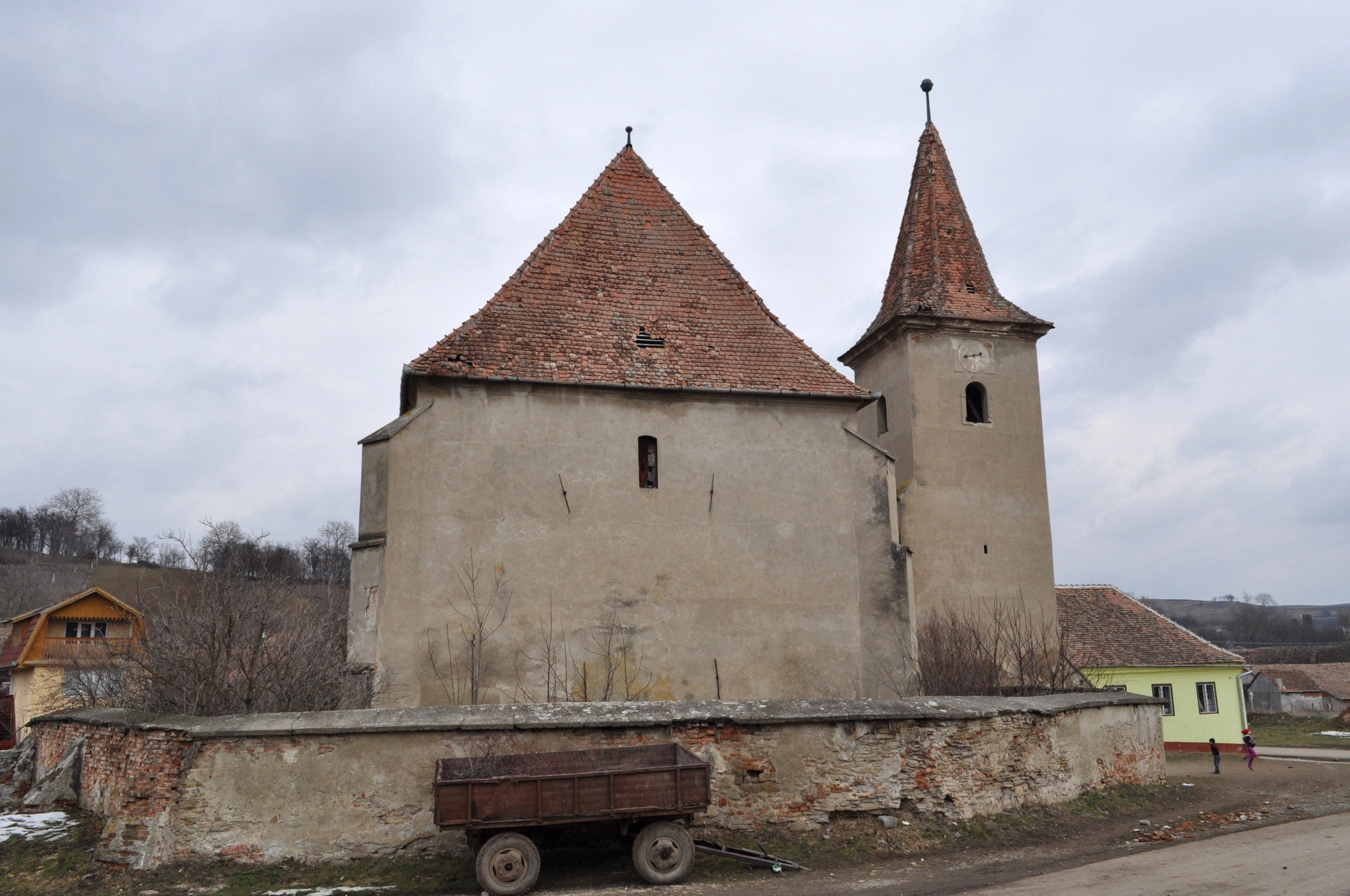 Saxon fortified church in Velț, Sibiu county, Romania